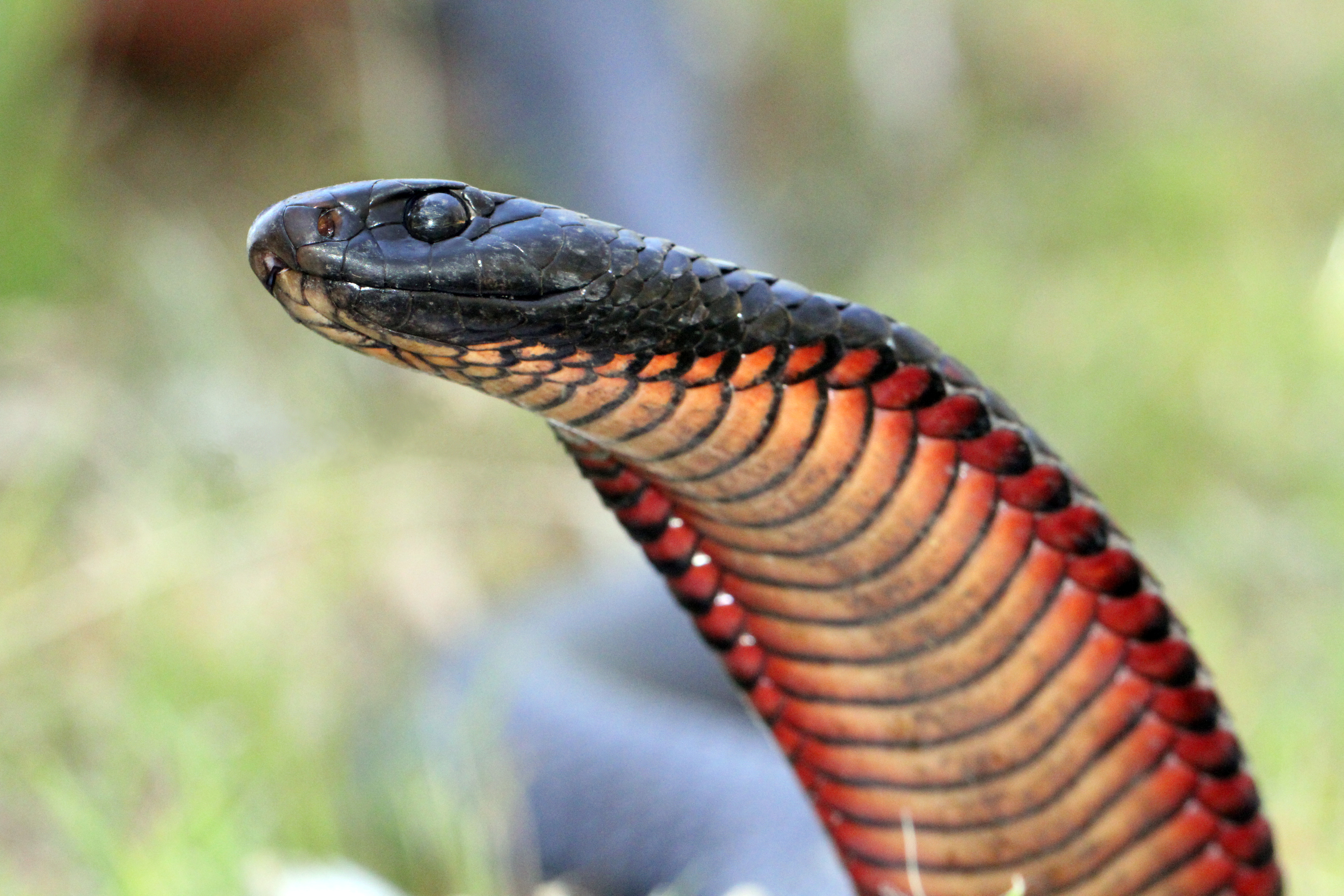 South Coast, NSW.